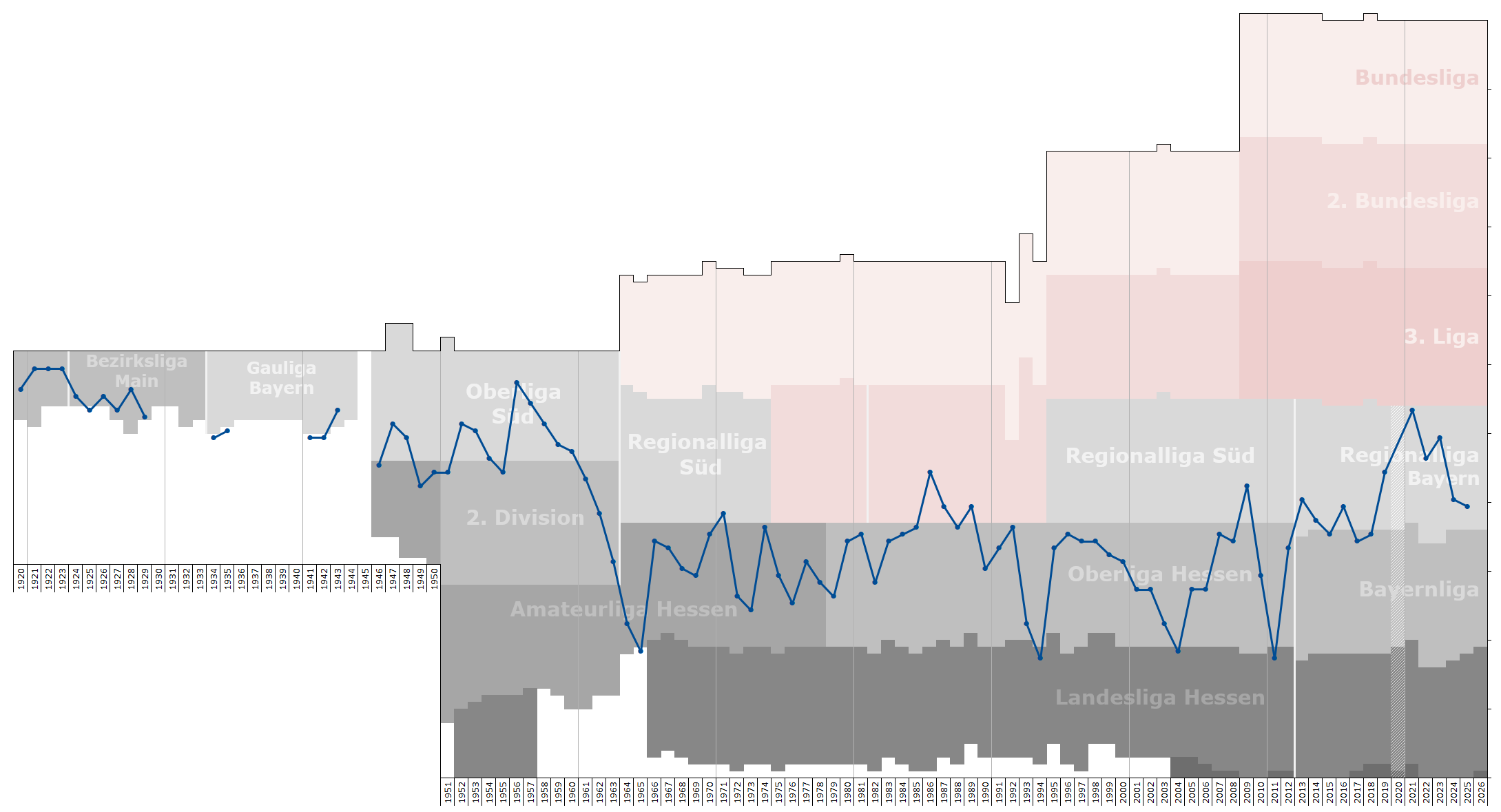 Chart of end-season table positions of Viktoria Aschaffenburg in the football league system of Germany. Data source: RSSSF, wikipedia, f-archiv.de, fussball.de